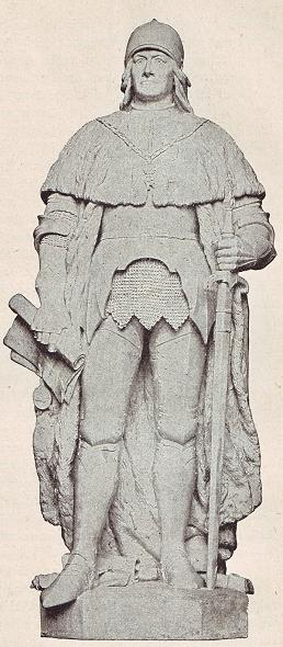 Central statue from monument group № 16 in Berlin's former Siegesallee commemorating Brandenburg’s Margrave and Elector Frederick II (1413–1471). Sculptor: Alexander Calandrelli. The sculpture was unveiled on 22 December 1898.